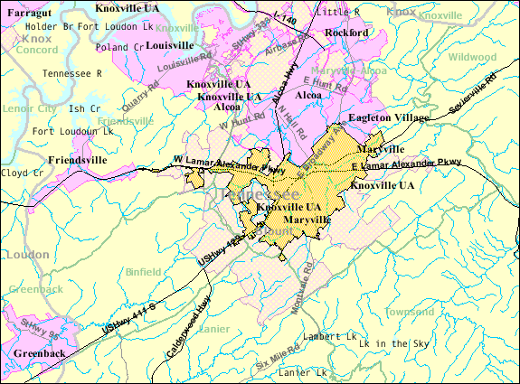 U.S. Census 2000 reference map for Maryville